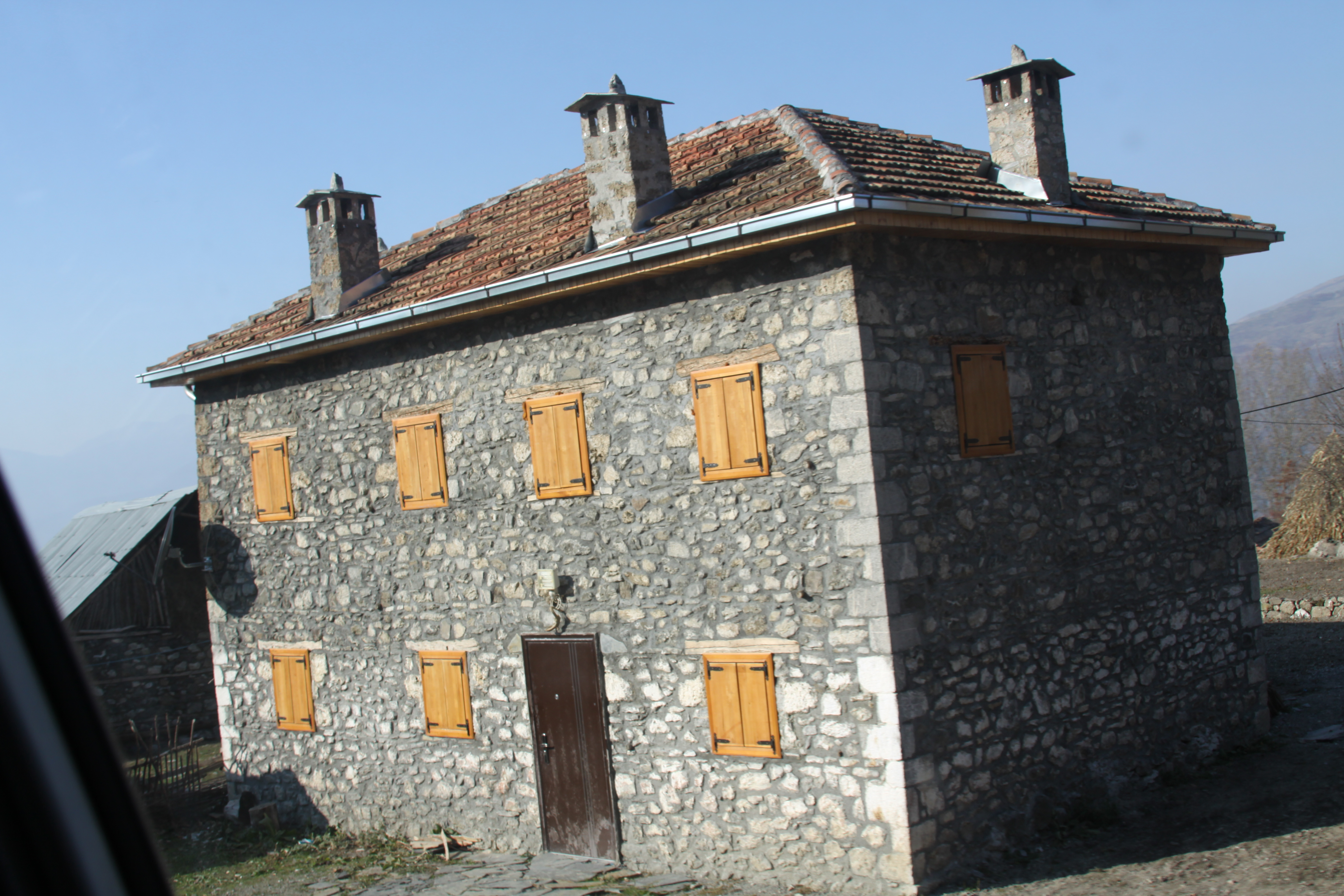 Kulle tipike ne Kalane eDodes Peshkopi